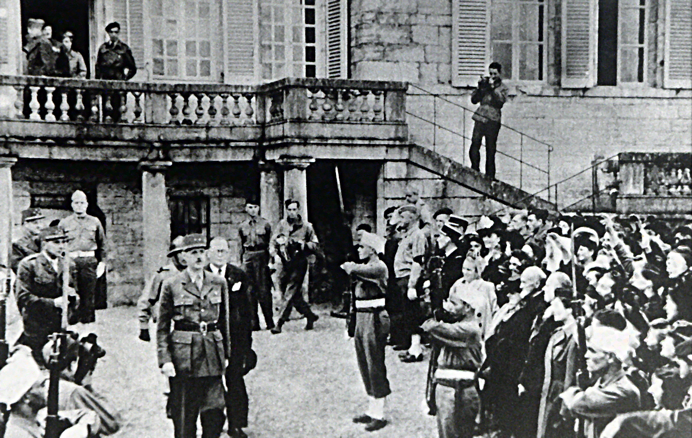 On November 13, 1944, De Gaulle and Churchill held a meeting to prepare for the end of the Second World War. It took place in the small french town of Maiche. The picture shows both men in front of the Chateau Montalembert castle.